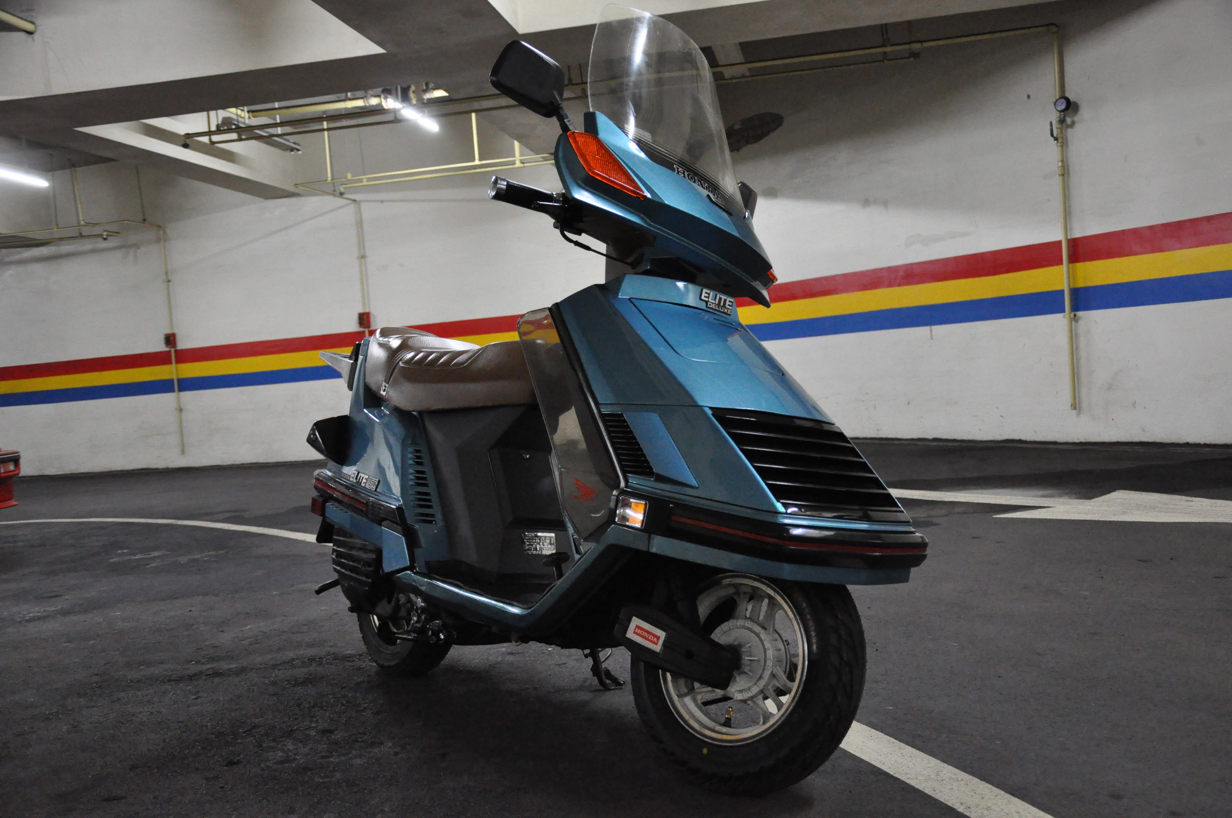 this Scooter was made by Honda/Kymco in 1990, it may be the finest scooter Honda produced in 1980s.